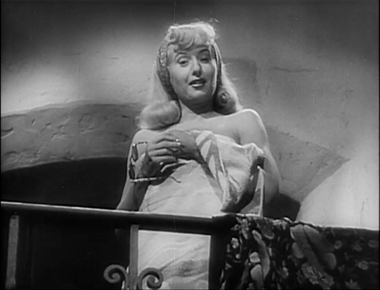 Cropped screenshot of Barbara Stanwyck from the trailer for the film Double Indemnity